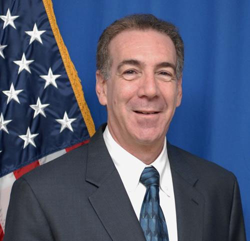 Photo of United States Ambassador to Estonia, Jeffrey D. Levine